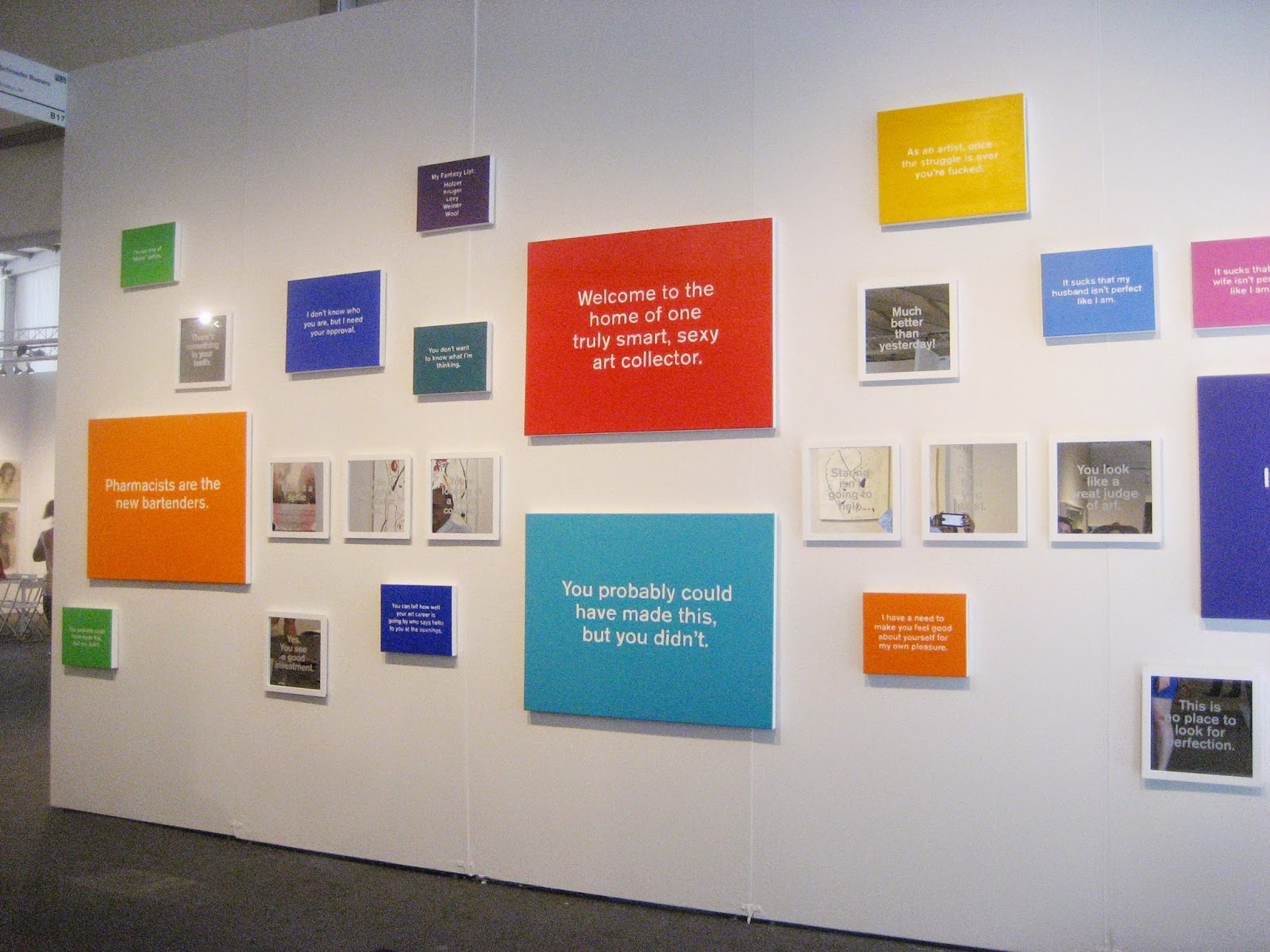 "The Thoughts in My Head" Text paintings and mirrors, Lisa Levy, Schroeder and Romero Gallery, Pulse Art Fair